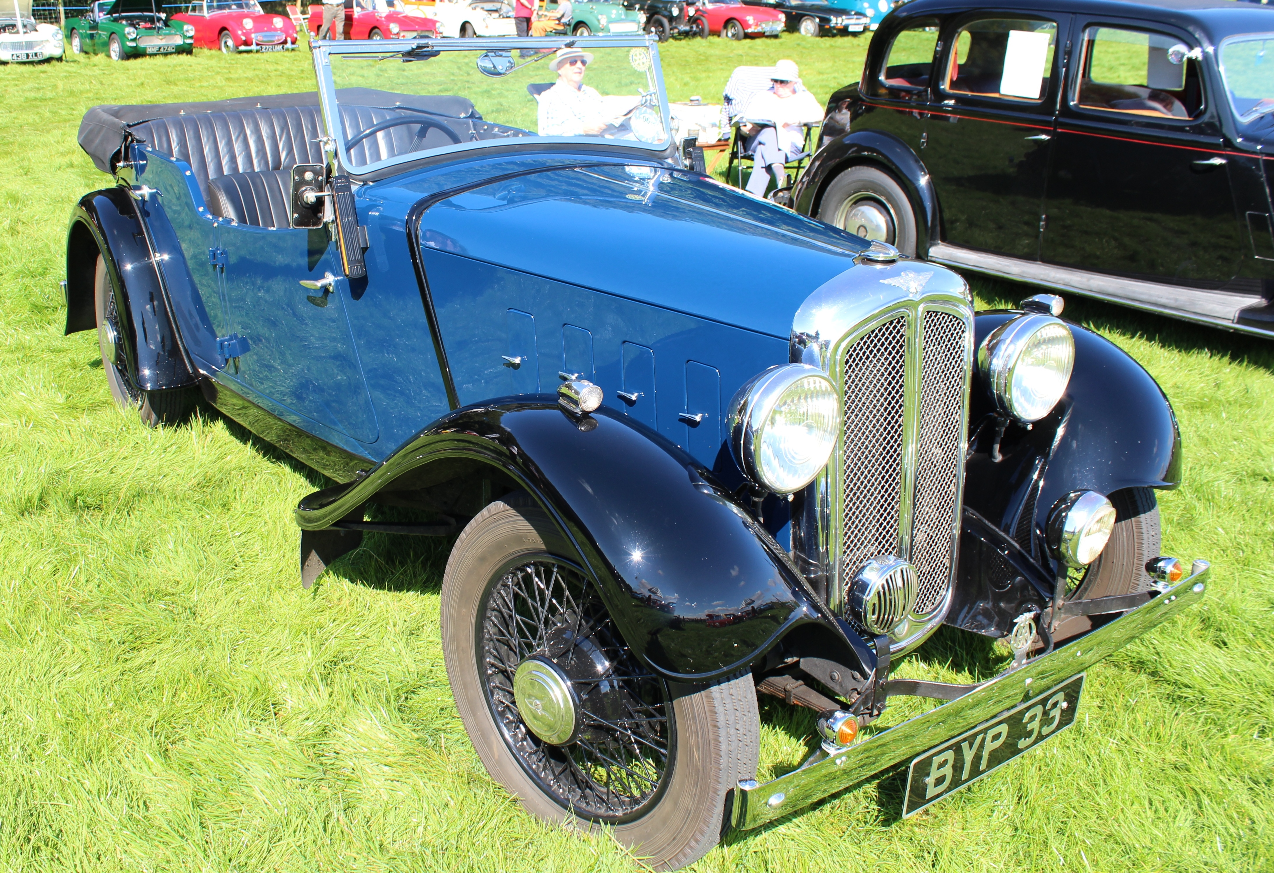 1935 Austin Newbury Light Twelve-Six 4-seater tourer body by Ambi-Budd (DVLA) manufactured 1935, 1711 cc Houghton Tower classic car show